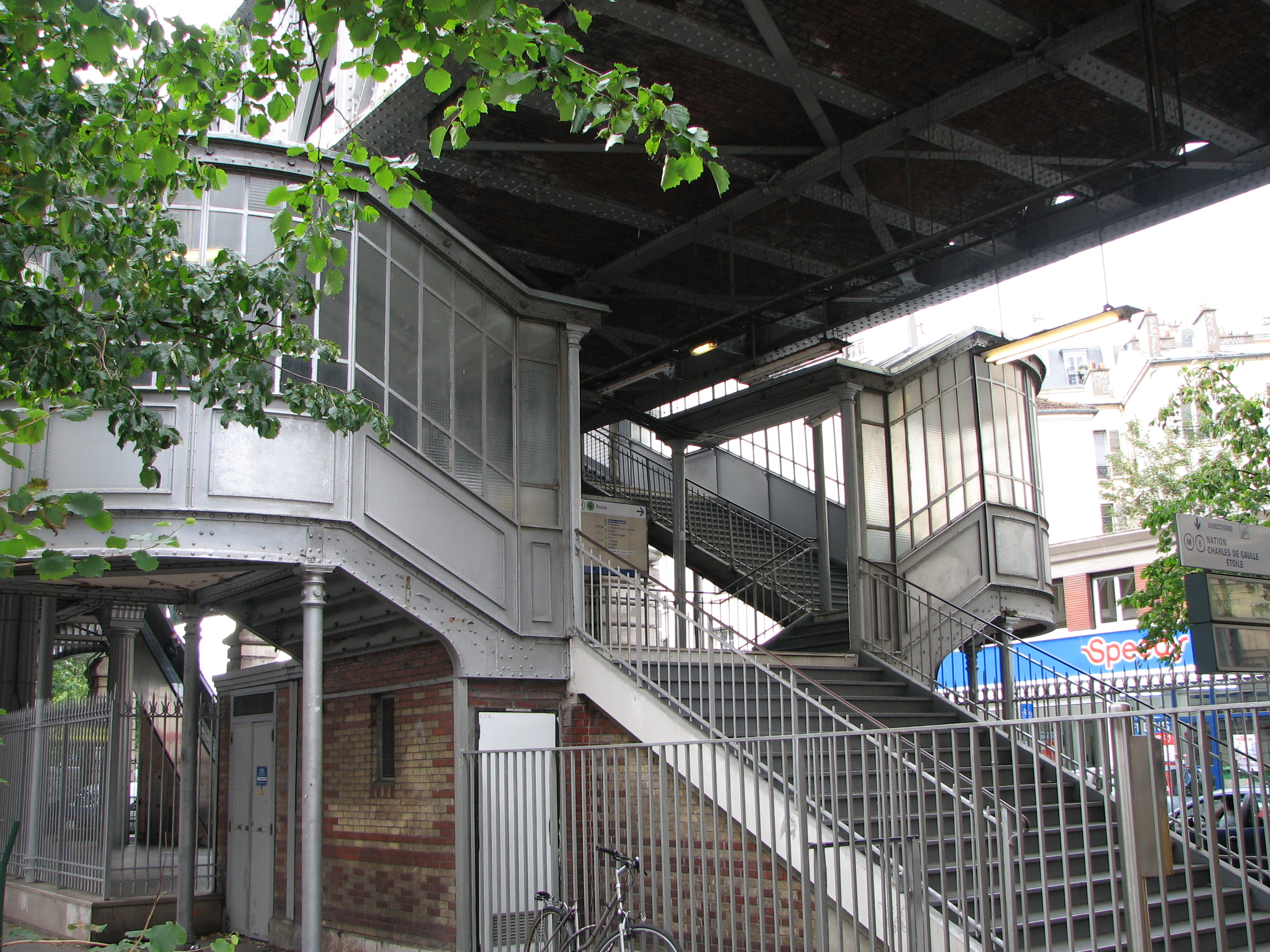 Stairs in subway station of Sevres-Lecourbes, Paris